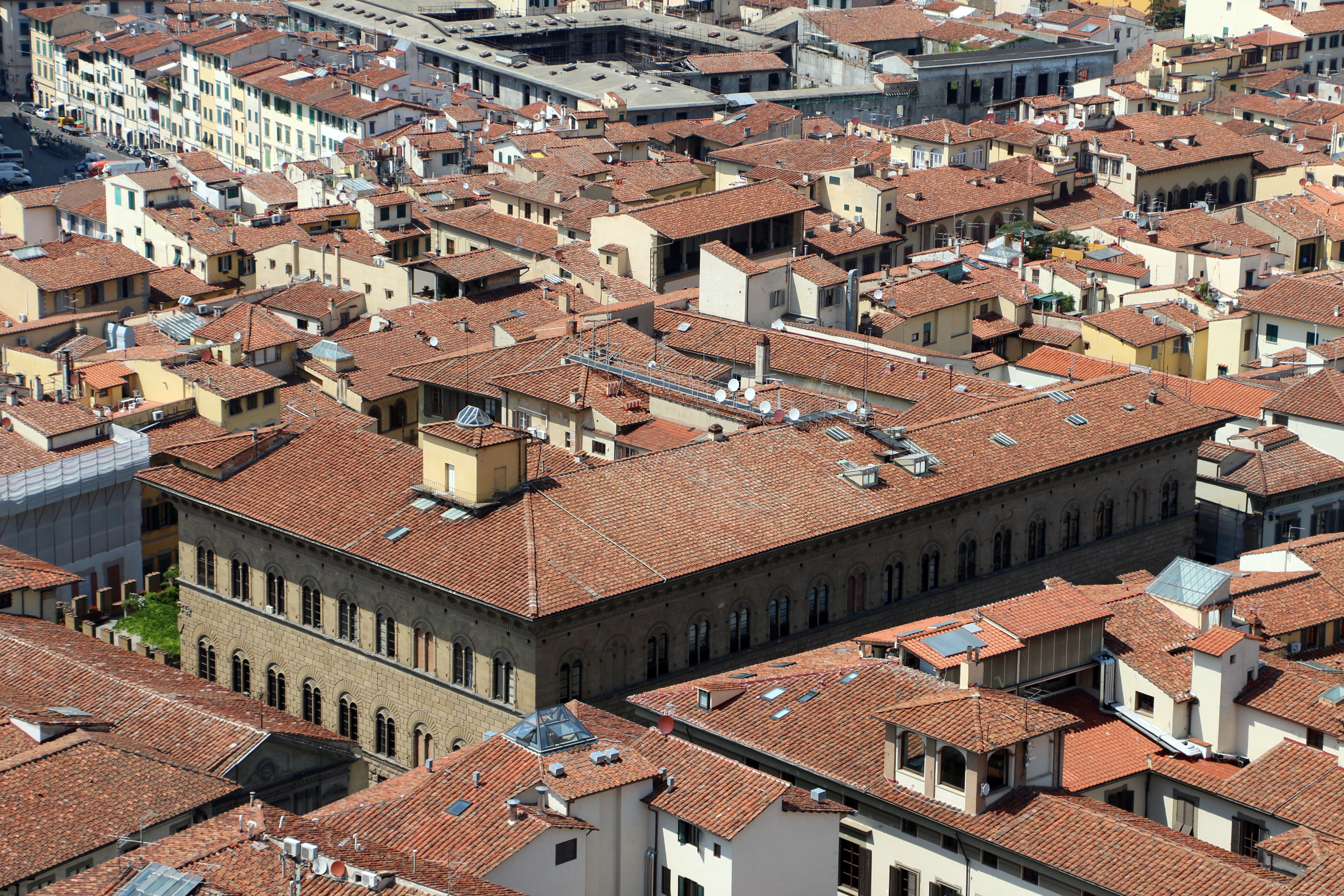 Santa Maria del Fiore (Florence) - Dome - View from